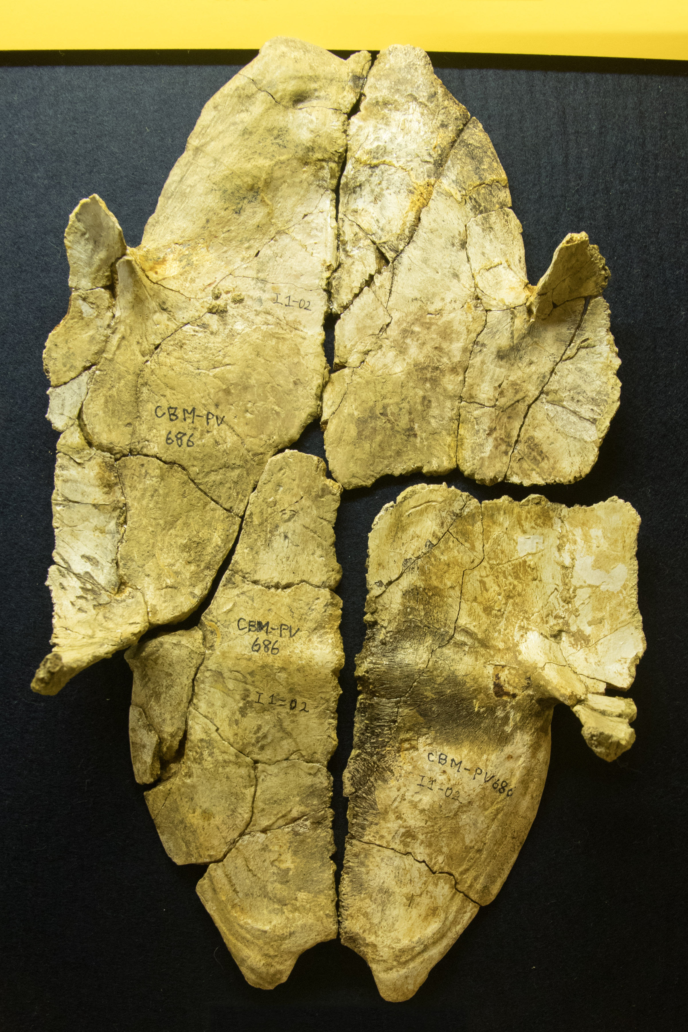 Fossil of Ocadia nipponica